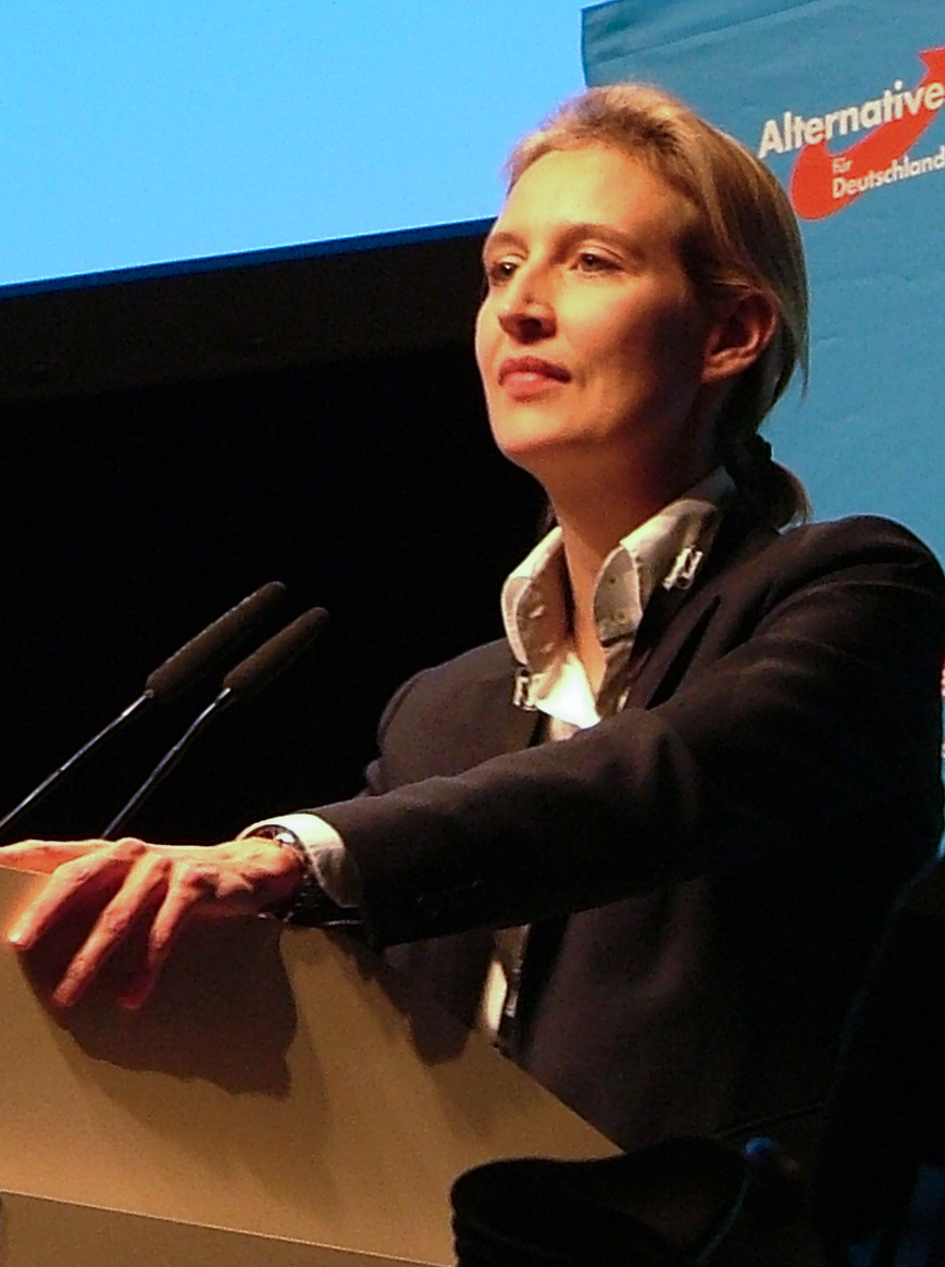 AfD Bundesparteitag am 23. April 2017 in Köln, MARITIM Hotel